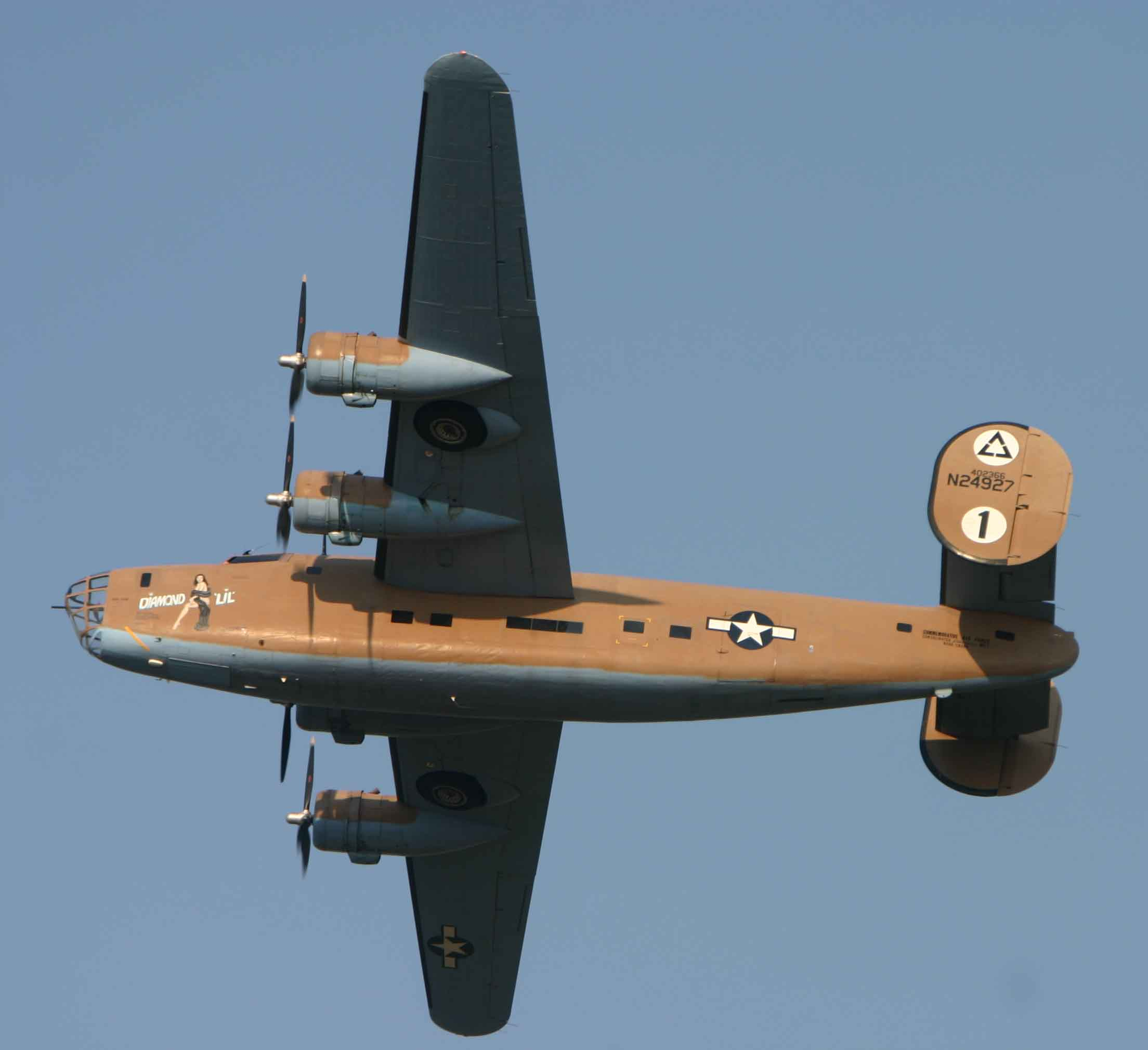 B-24 Liberator LB-30B "Diamond Lil" from the Commemorative Air Force collection.